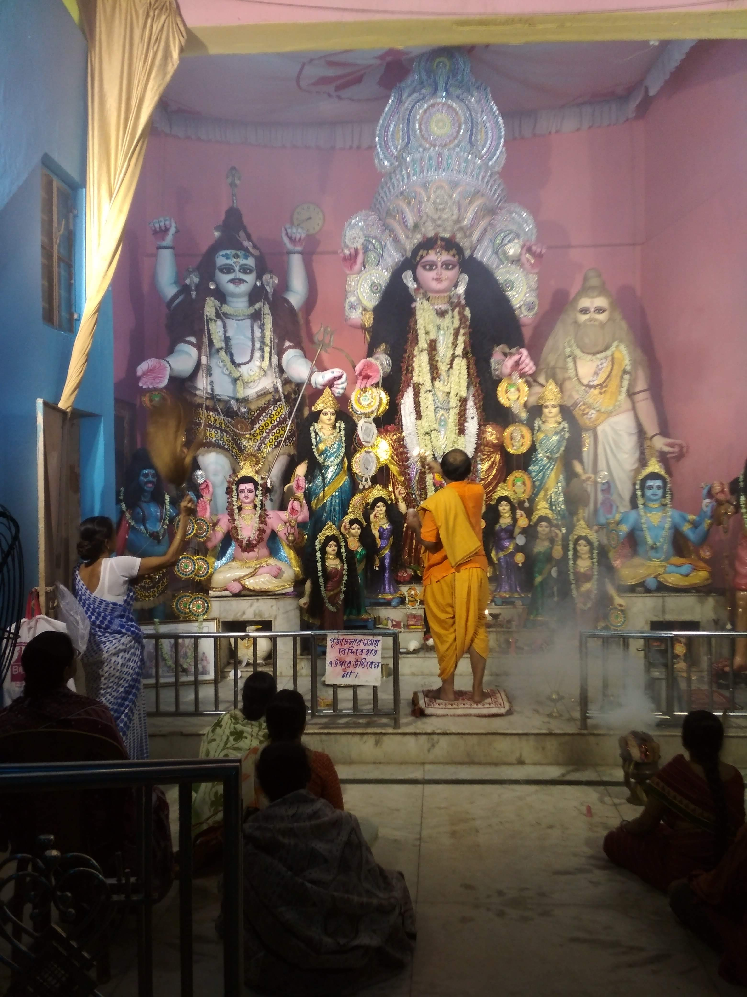 Annual Bhuvaneshwari Puja organized at Hatkhola, Chandannagar. (2018)